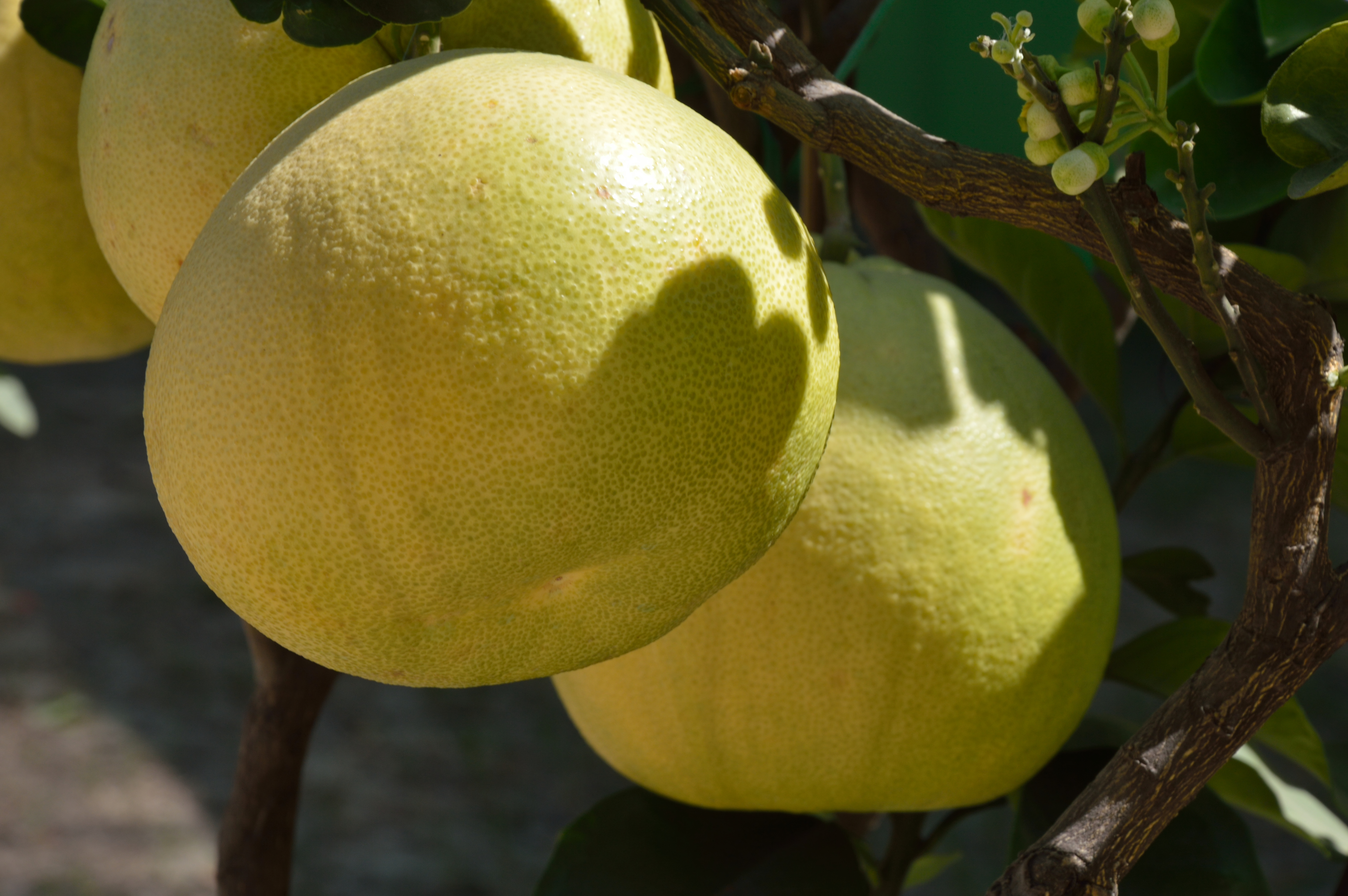 The 186th Annual Flower Show was held at the garden of the Agri-Horticultural Society of India, Alipore, Kolkata, from 7 to 10 February 2013. The exhibition comprises Bonsai, Cacti, Crotons, Dahlias, Fruits, Herbal plants, Palms, Roses, Succulents, Vegetables and perennial flowering plants in pots and uprooted.